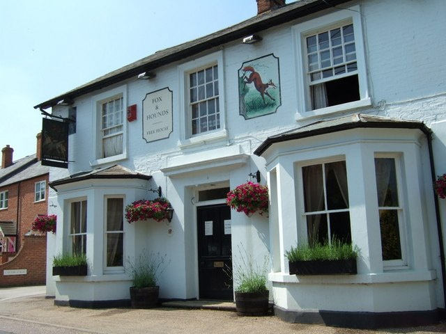 The Fox and Hounds, Whittlebury. Close up of the pub seen in 187607